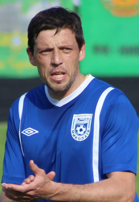 Andriy Burdiyan